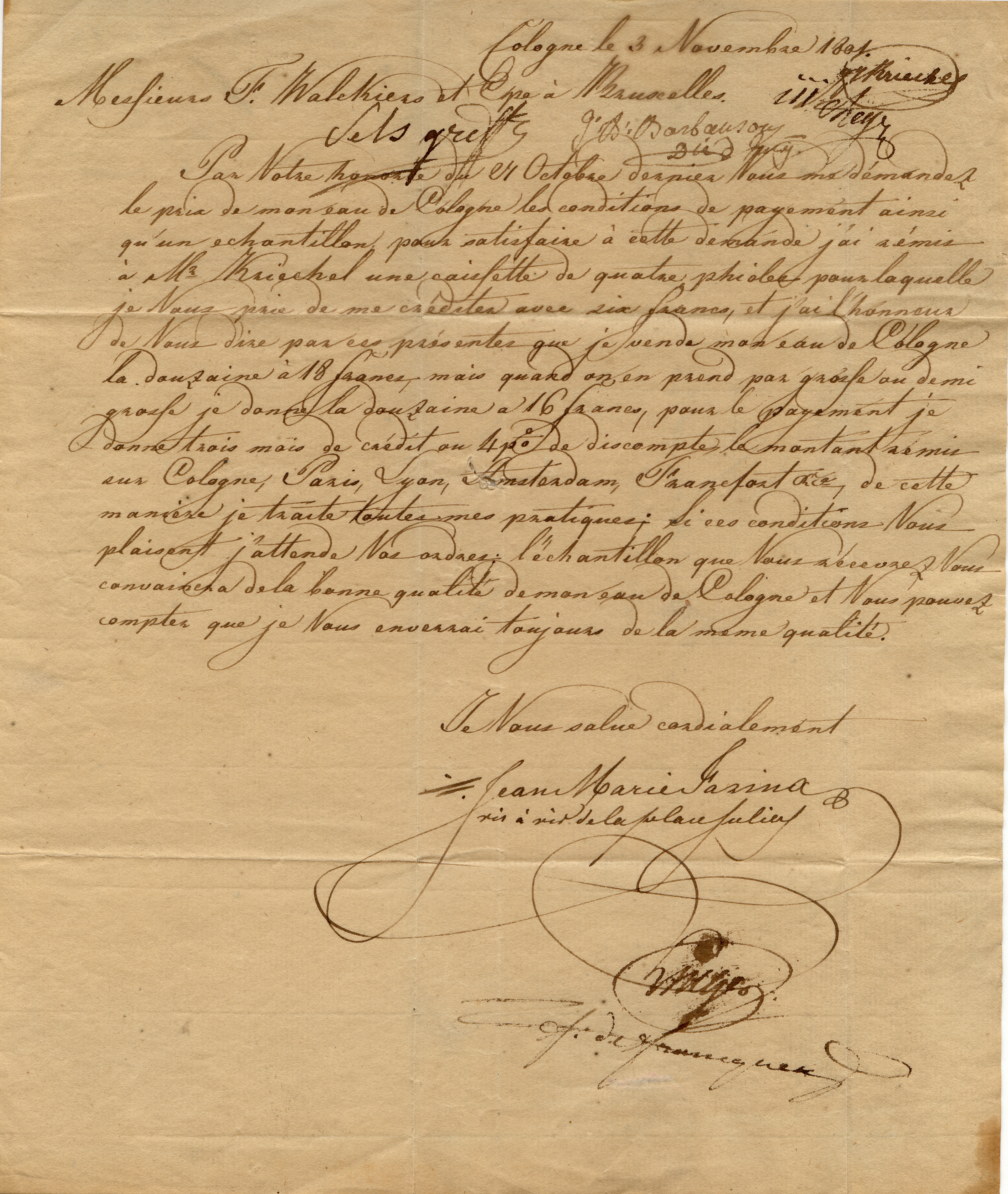 Farina Letter 1801